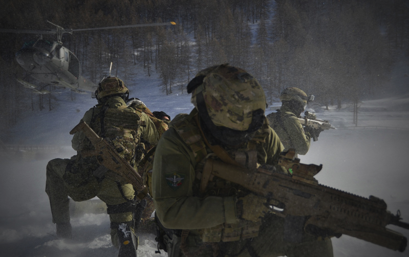 Italian Rangers with AR160 A2 rifles awaiting helicopter extraction